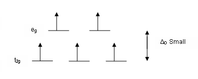 High spin complex crystal field diagram